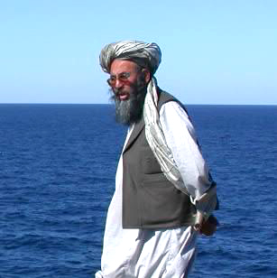 Mullah Naqib__Alokozay_Kandahar-Tribe